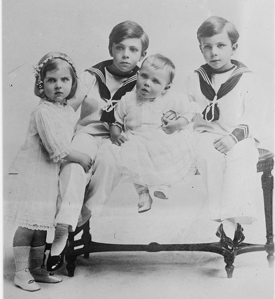 Bain News Service,, publisher. Princes Gustaf Adolf - Sigvard & Bertil & Princess Ingrid of Sweden [between ca. 1910 and ca. 1915] 1 negative : glass ; 5 x 7 in. or smaller. Notes: Title from data provided by the Bain News Service on the negative. Forms part of: George Grantham Bain Collection (Library of Congress). Format: Glass negatives. Repository: Library of Congress, Prints and Photographs Division, Washington, D.C. 20540 USA, General information about the Bain Collection is available at Higher resolution image is available (Persistent URL): Call Number: LC-B2- 2994-1